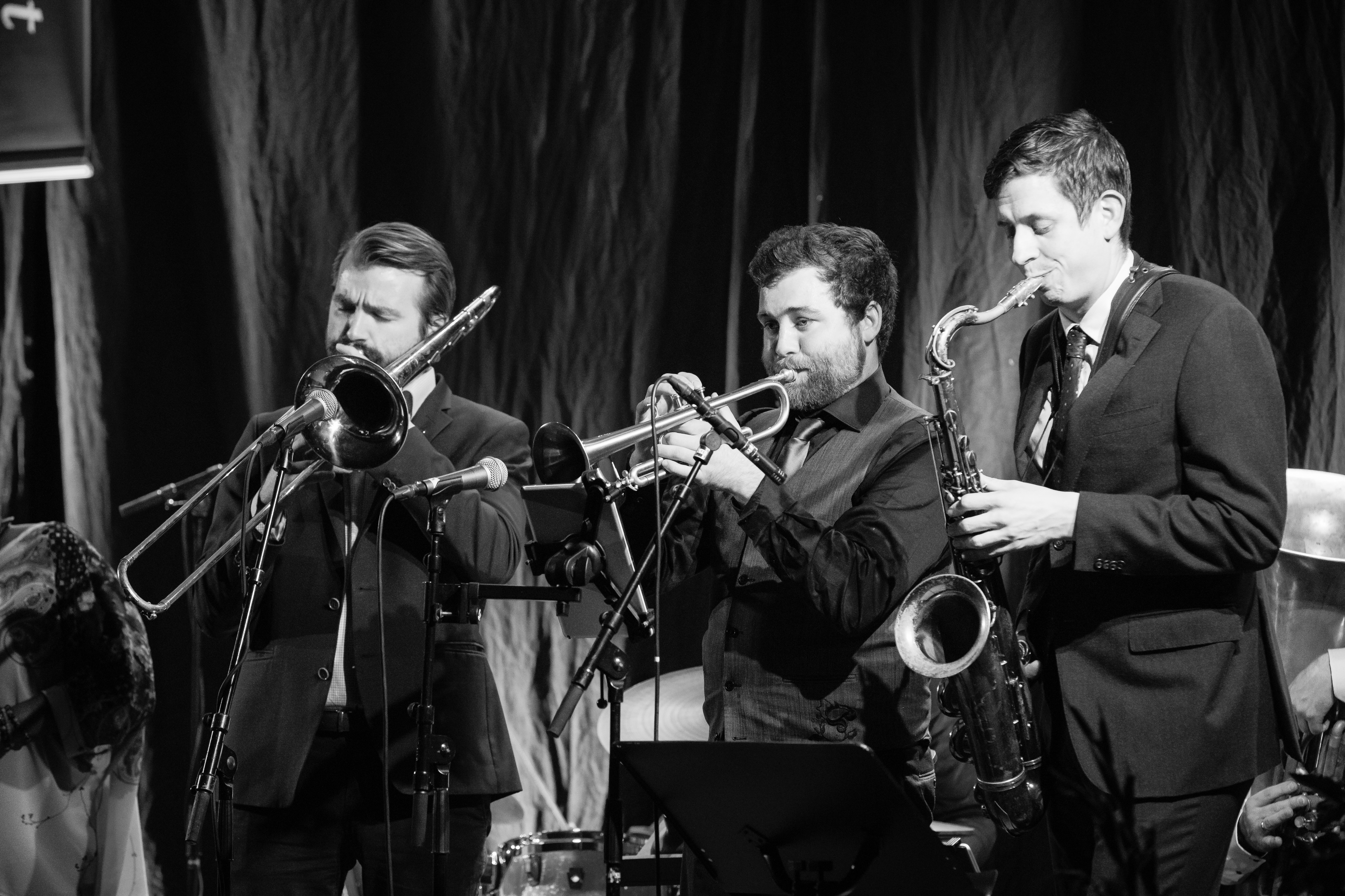 Ytre Suløens Jass-ensemble and Tricia Boutté at Thon Hotel Jølster. The concert was part of Jazz på Jølst and took place on 11. October 2019 in Jølster. Lineup:Tricia Boutté (vocal)Lars Frank (clarinet)Sturla Hauge Nilsen (trumpet)Andreas Rotevatn (trombone)Einar Aarø (banjo and guitar)David Gald (tuba)Askjell Molvær (piano)Kristoffer Tokle (drums)